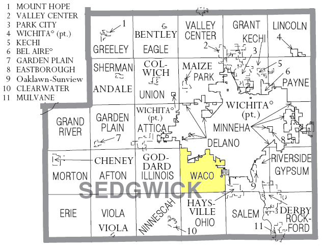 Map of Sedgwick County, Kansas highlighting Waco Township